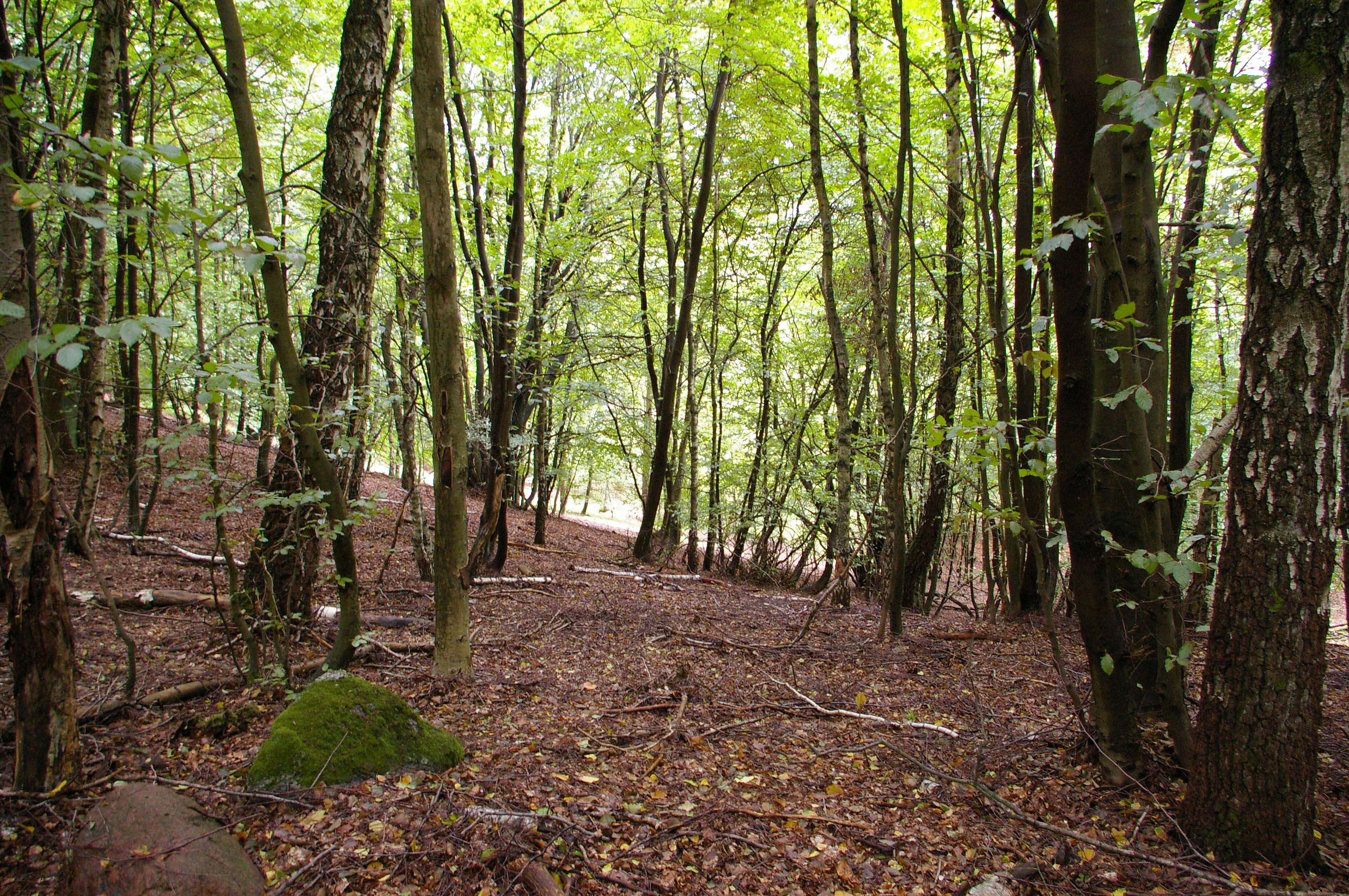 Forest aspect in the surrounding of the "Hoher Mechtin", highest altitude of the hilly region "Drawehn" between Hamburg and Berlin (North German Lowland).